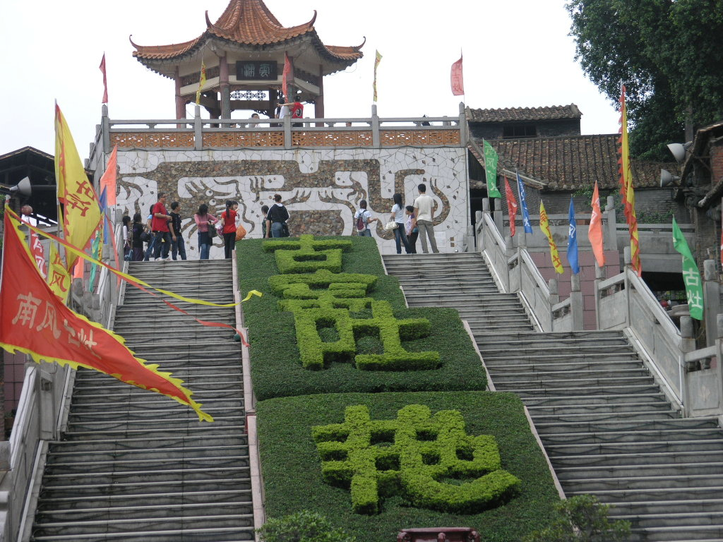 But one of many Buddhist Temple in Foshan